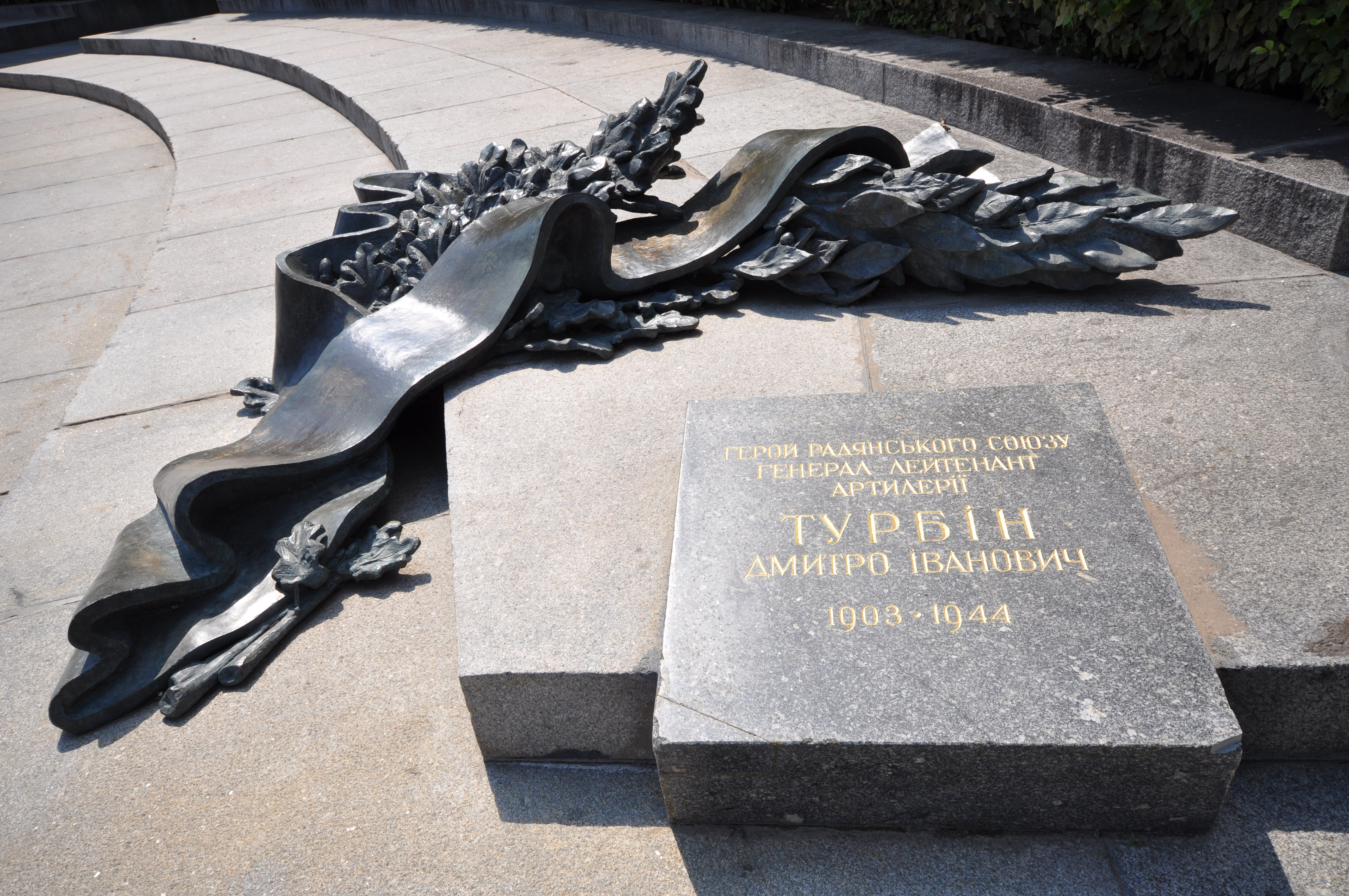 Tomb of the Unknown Soldier, Dnieper Park